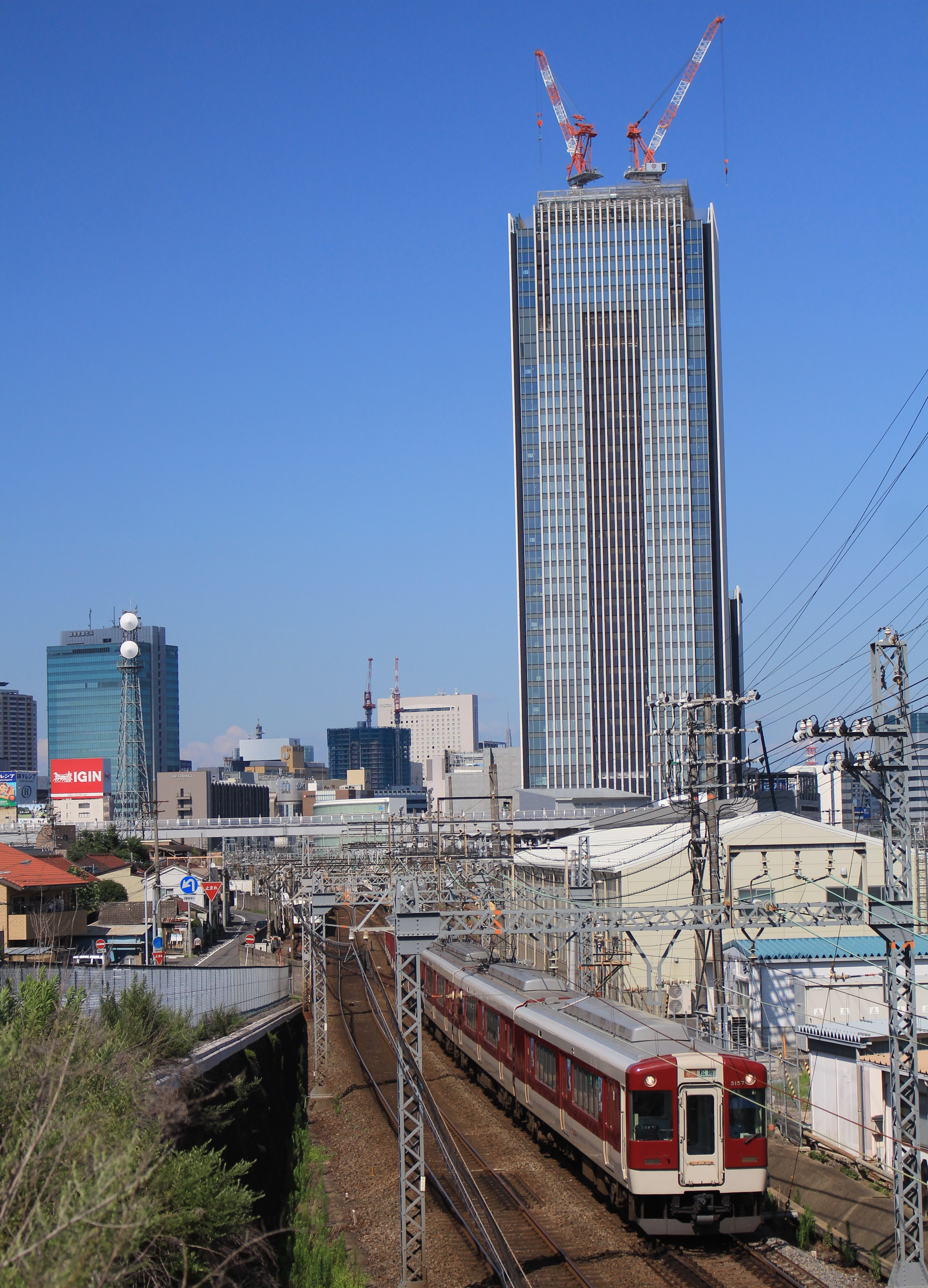 Train of Kintetsu 5200 series on Kintetsu Nagoya Line and Global Gate in Nakamura-ku, Nagoya, Aichi prefecture, Japan.